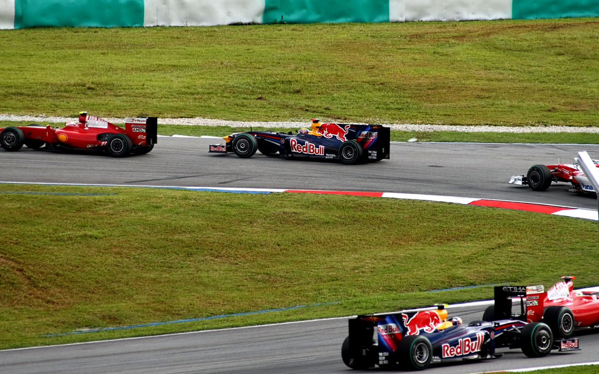 The formation lap